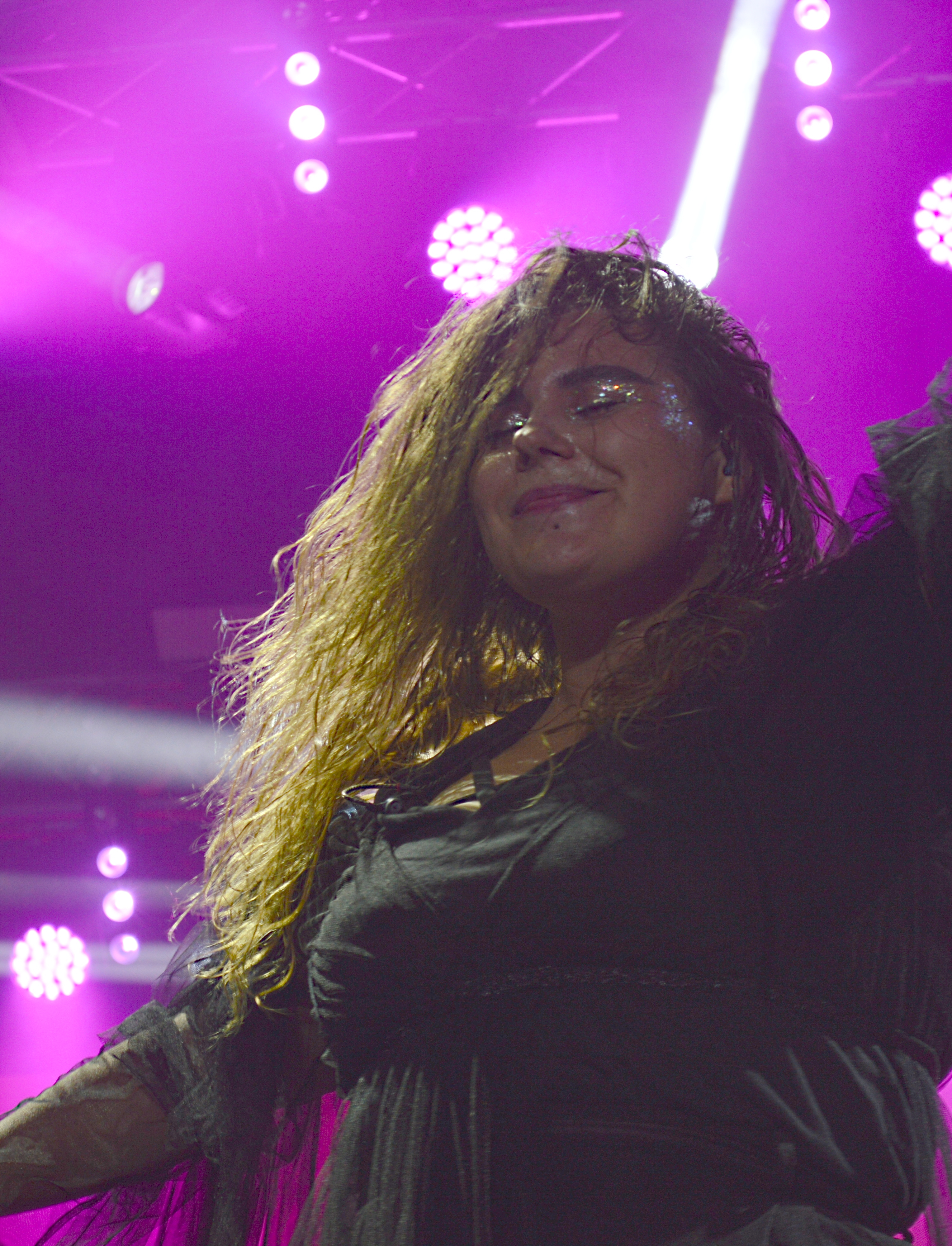 Ukrainian singer Oleksandra Zaritska, the frontwoman of the band KAZKA at the 2018 MRPL City Festival.